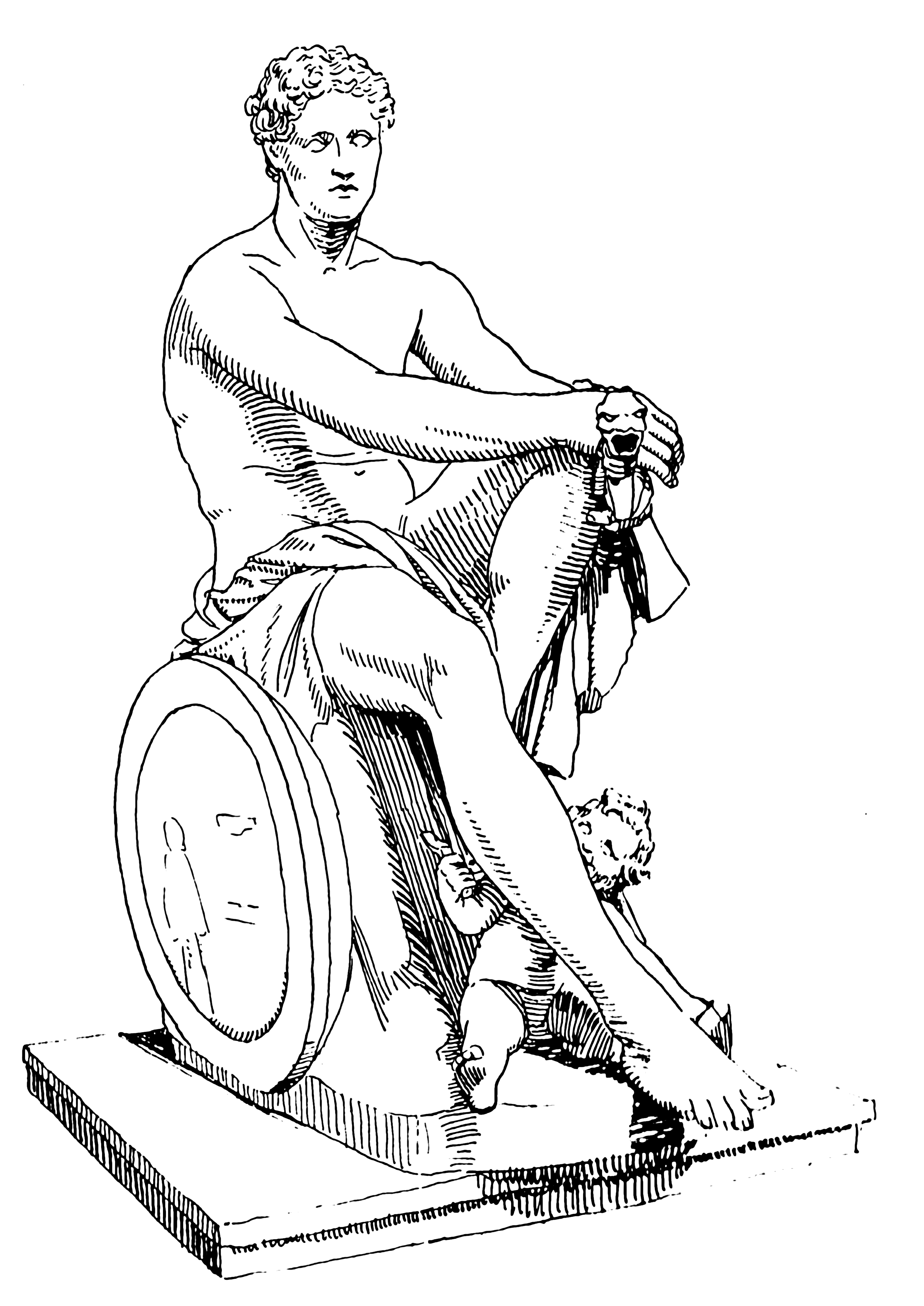 Line art drawing of a statue of Ares